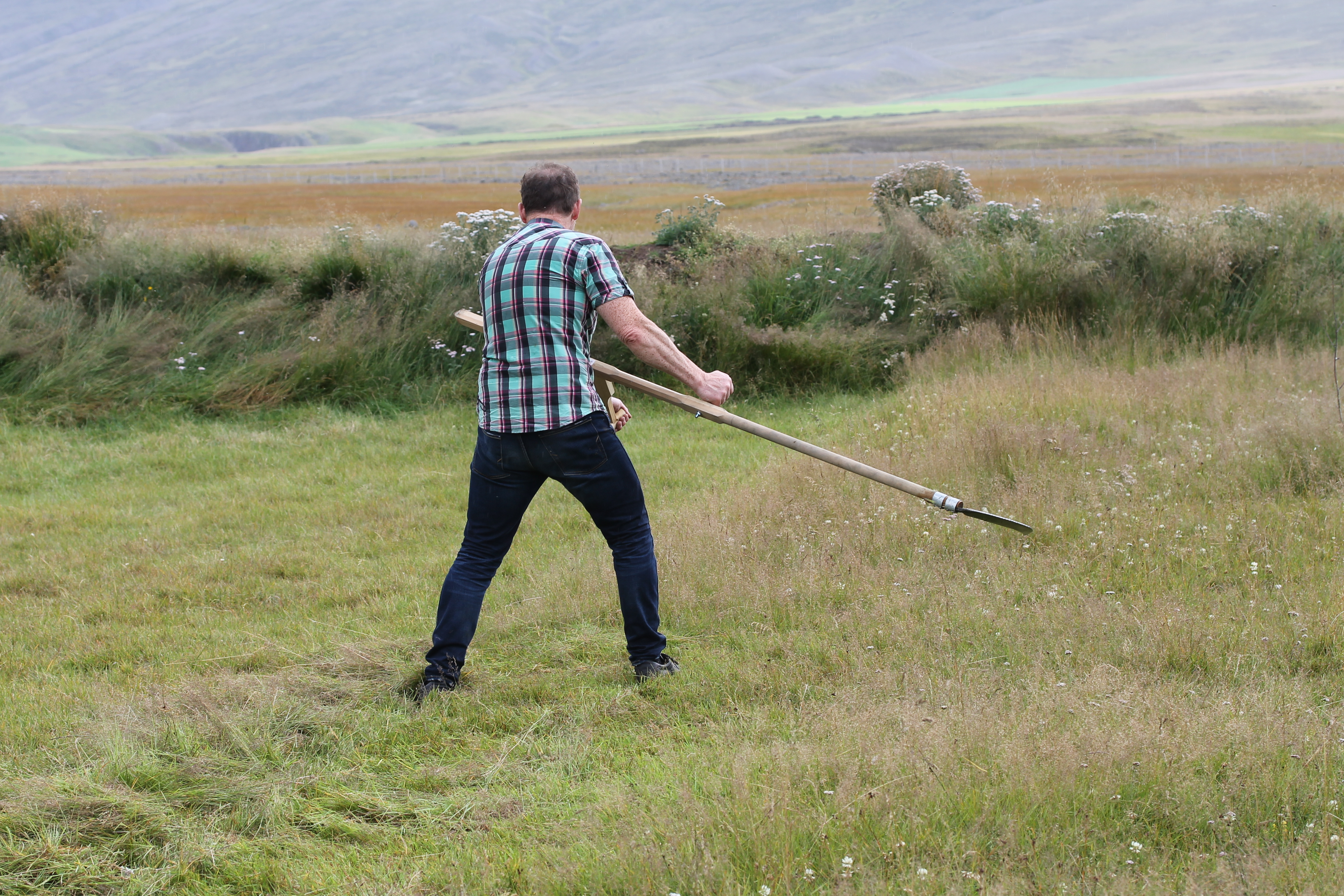 Cutting grass with a scythe.